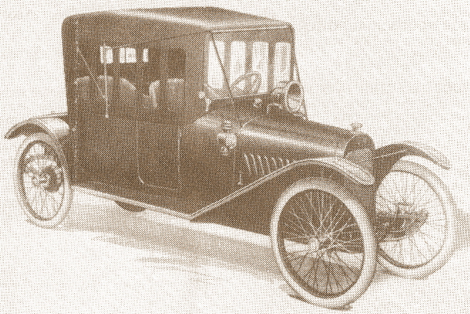 1916 Woods Mobilette cyclecar